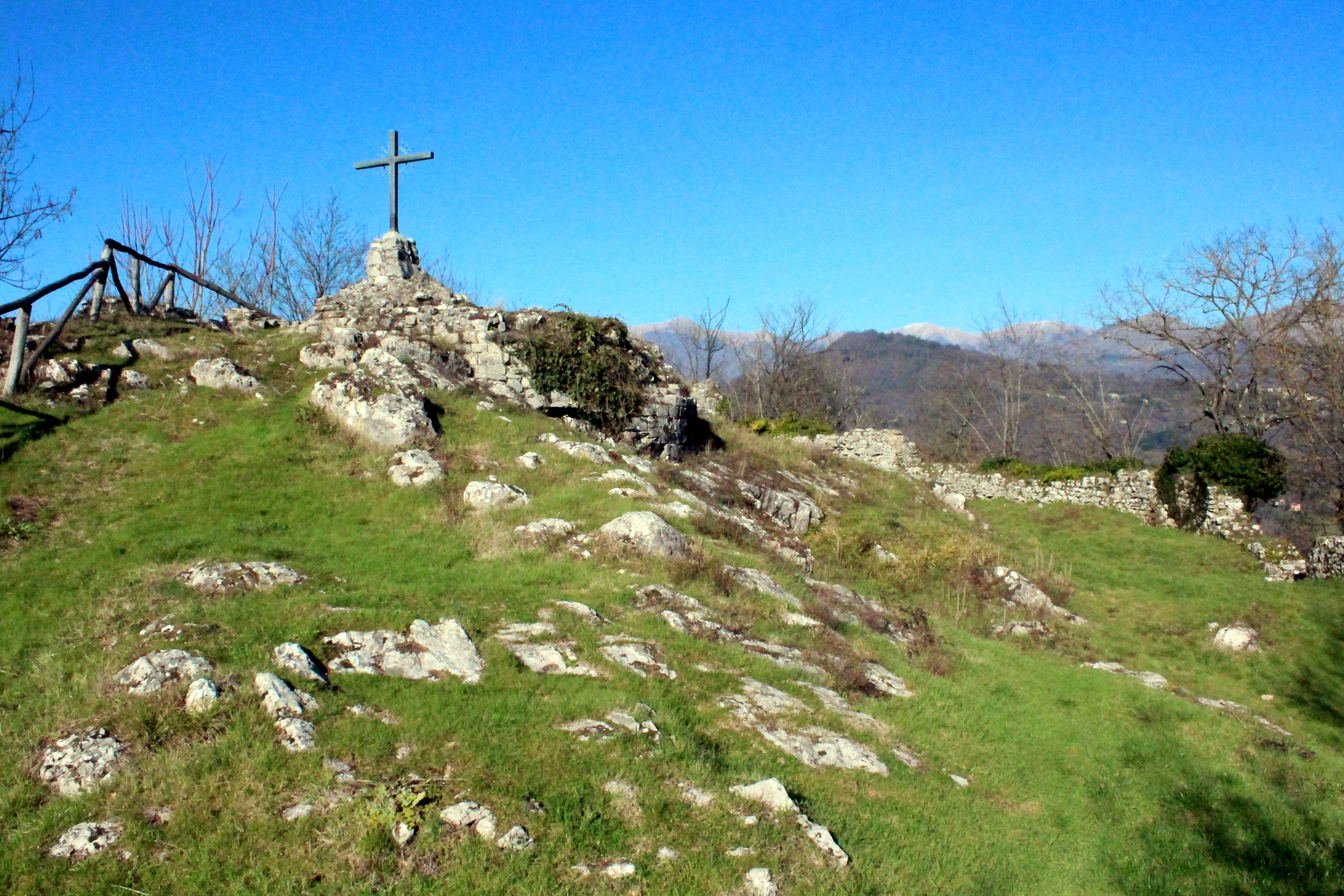 Castle Ruin of the Rocca di Mozzano in Rocca, hamlet of Borgo a Mozzano, Province of Lucca, Tuscany, Italy